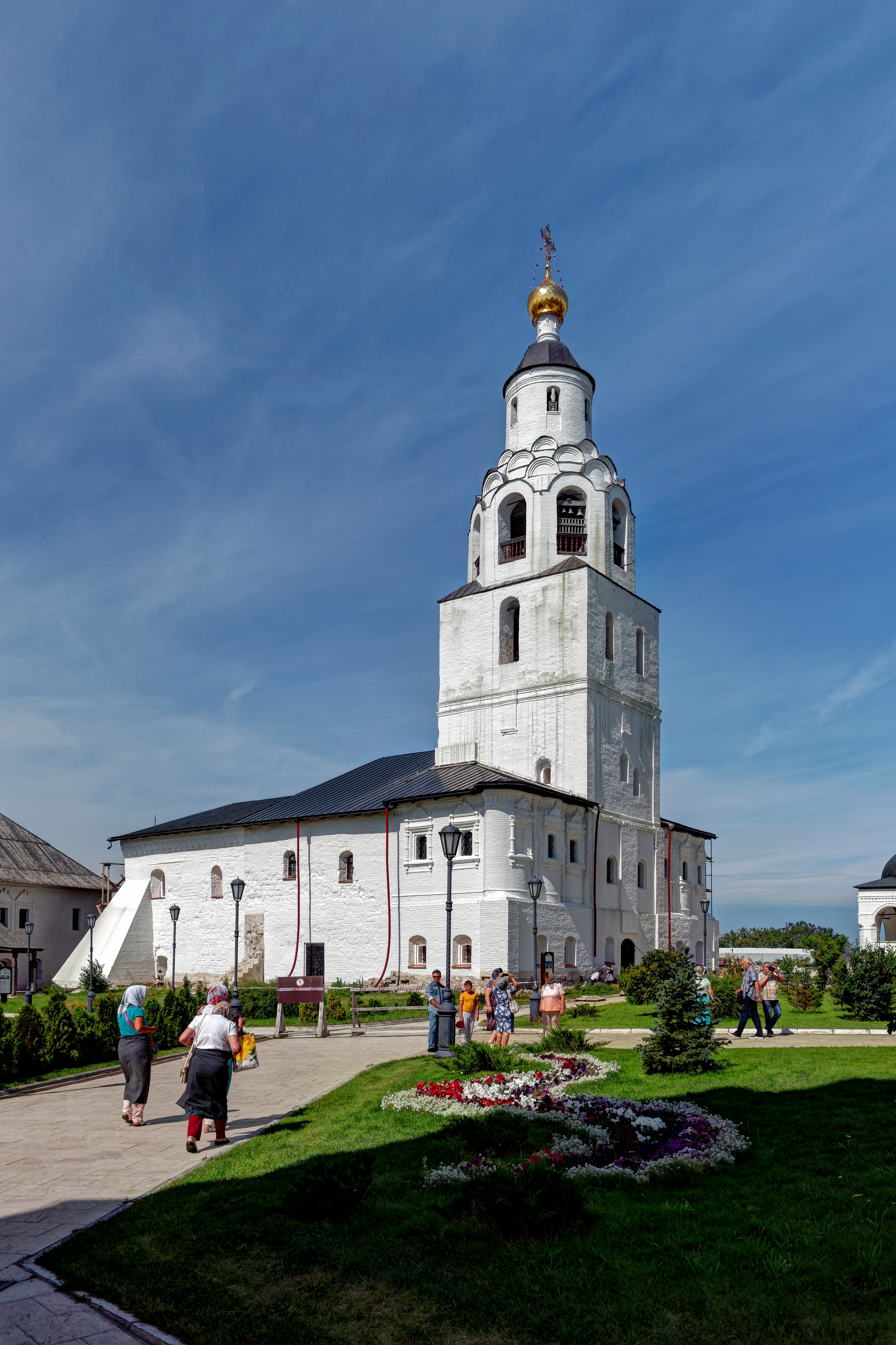 Sviyazhsk. Uspensko-Bogorodichny Monastery. Saint Nicholas Church